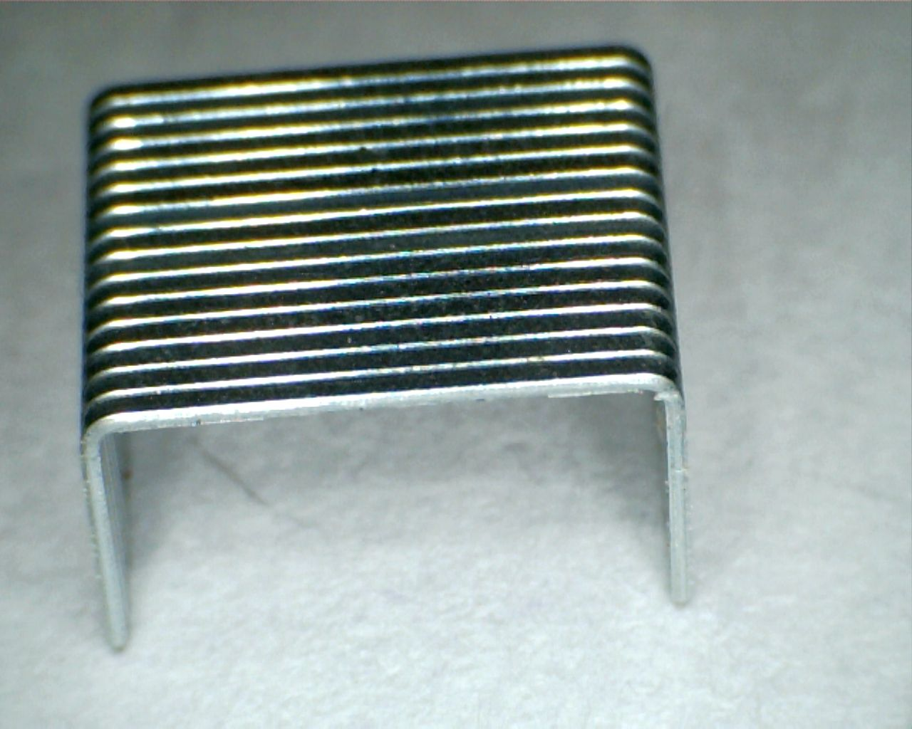 Stapler pins